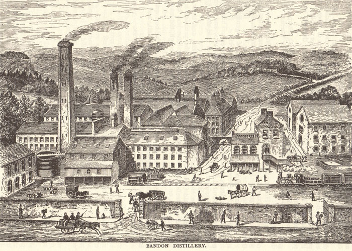 View of Allman's Whiskey Distillery in Bandon, County Cork, Ireland, circa 1885.